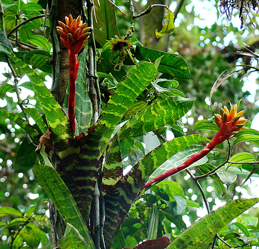 A large, epiphytic bromeliad, native from Costa Rica to Ecuador. Photo from the San Blas mountains of northeastern Panama. In context at